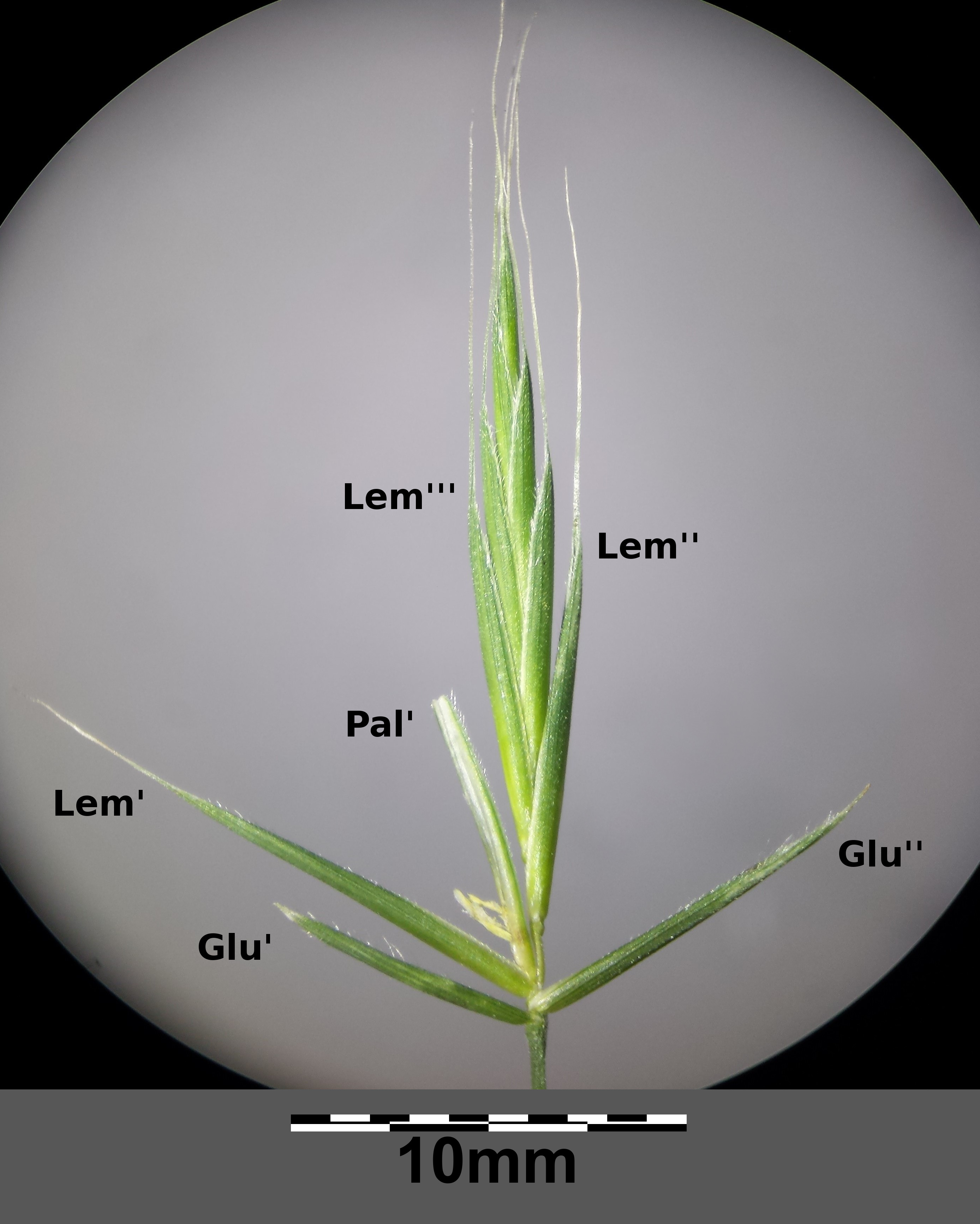 Spikelet Glu = Gluma Lem = Lemma Pal = Palea Taxonym: Brachypodium sylvaticum (subsp. sylvaticum) ss Fischer et al. EfÖLS 2008 ISBN 978-3-85474-187-9 Location: Kalte Stube near Puch, district Hollabrunn, Lower Austria - ca. 290 m a.s.l. Habitat: path within a wood